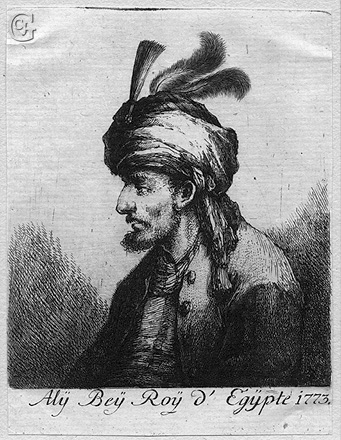 Portrait of Ali Bey, king (sultan) of Egypt (1728-1773)